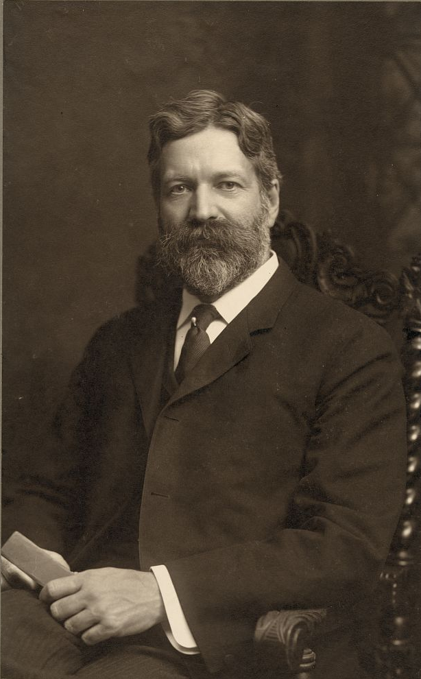 George Foster Peabody, half-length portrait, sitting, facing front, with hands on lap